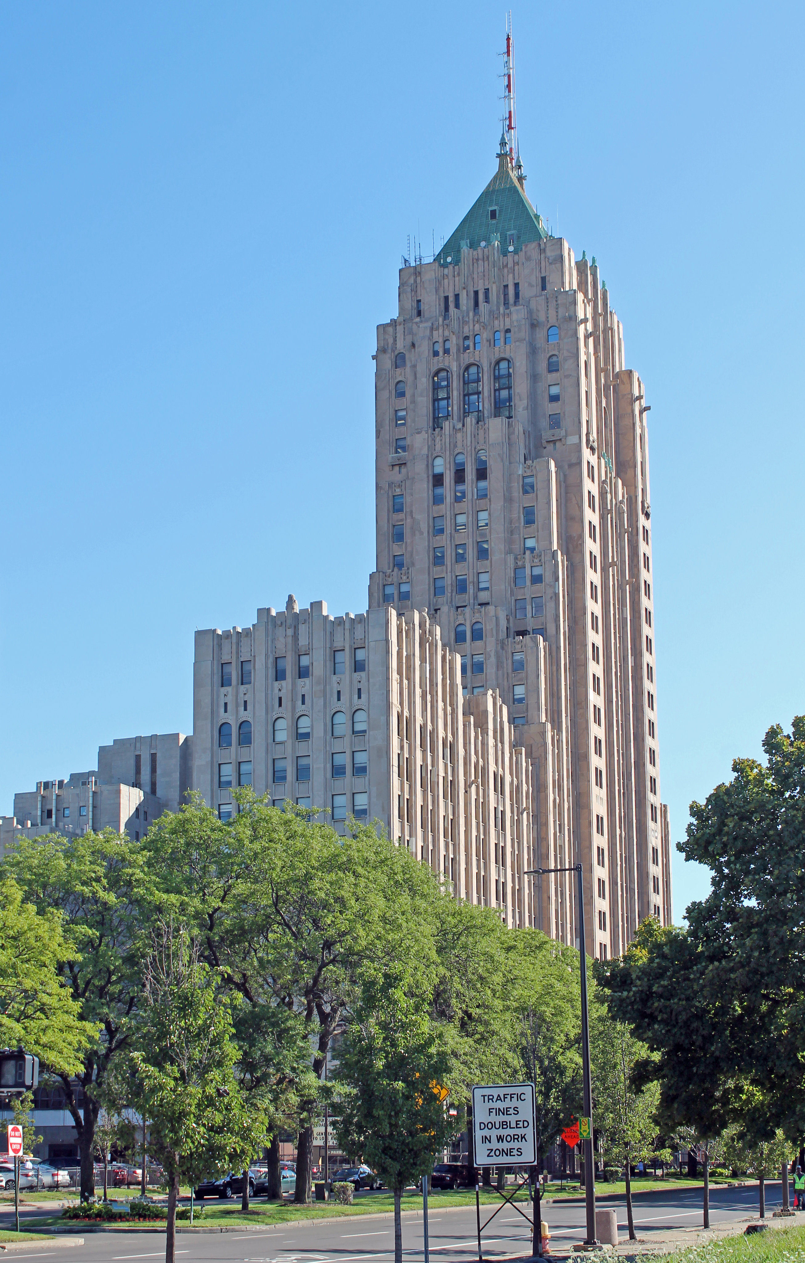 Fisher Building, Detroit (1928). Designed by Albert Kahn Associates. The interior of the lobby was designed by Hungarian artist and architect Géza Maróti.